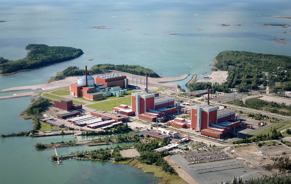 Olkiluoto Nuclear Power Plant in Eurajoki, Finland. Unit III, the new European Pressurized Reactor is computer manipulated. It is due to be in commission in 2011.